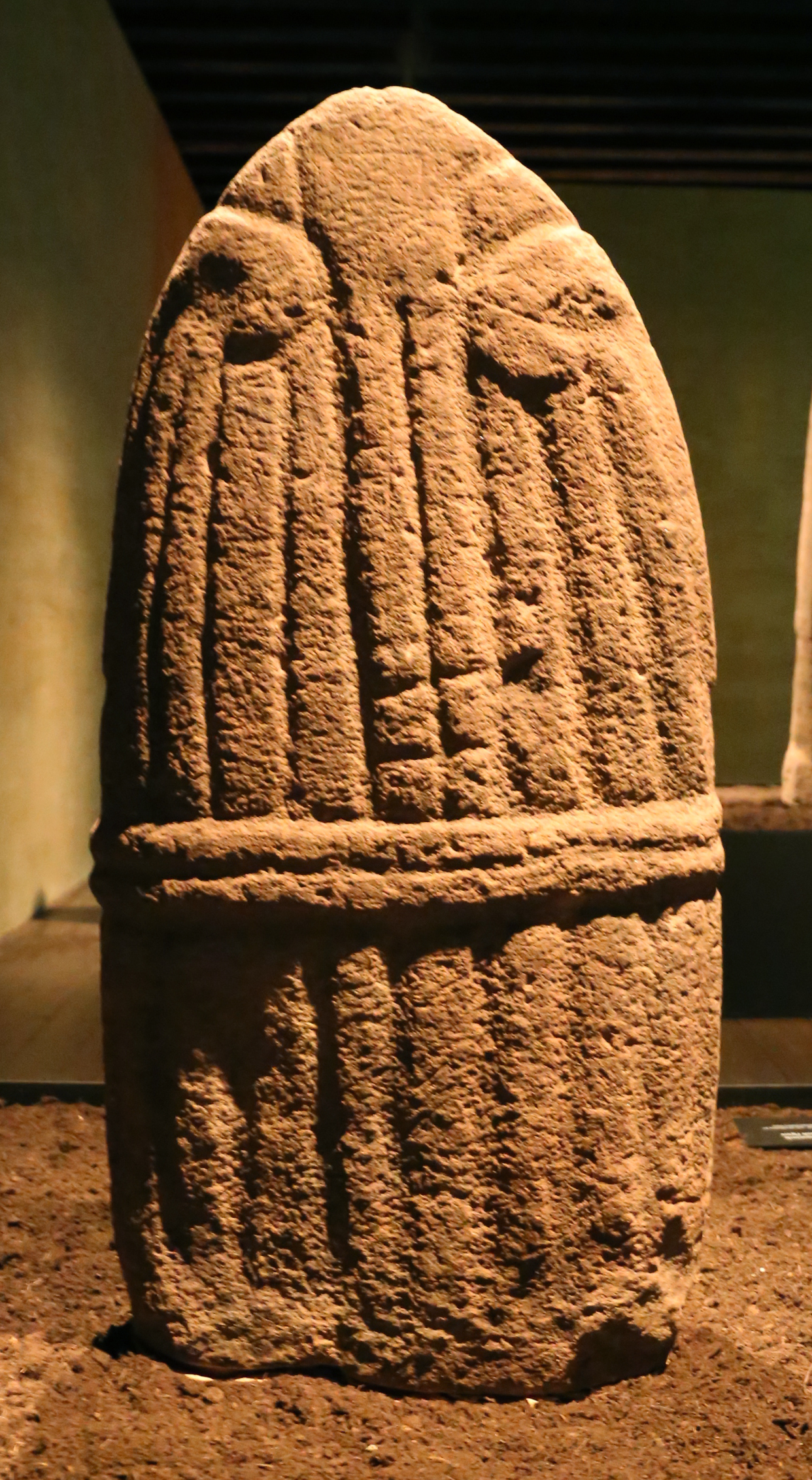 Intuition (Palazzo Fortuny 2017 exhibition)